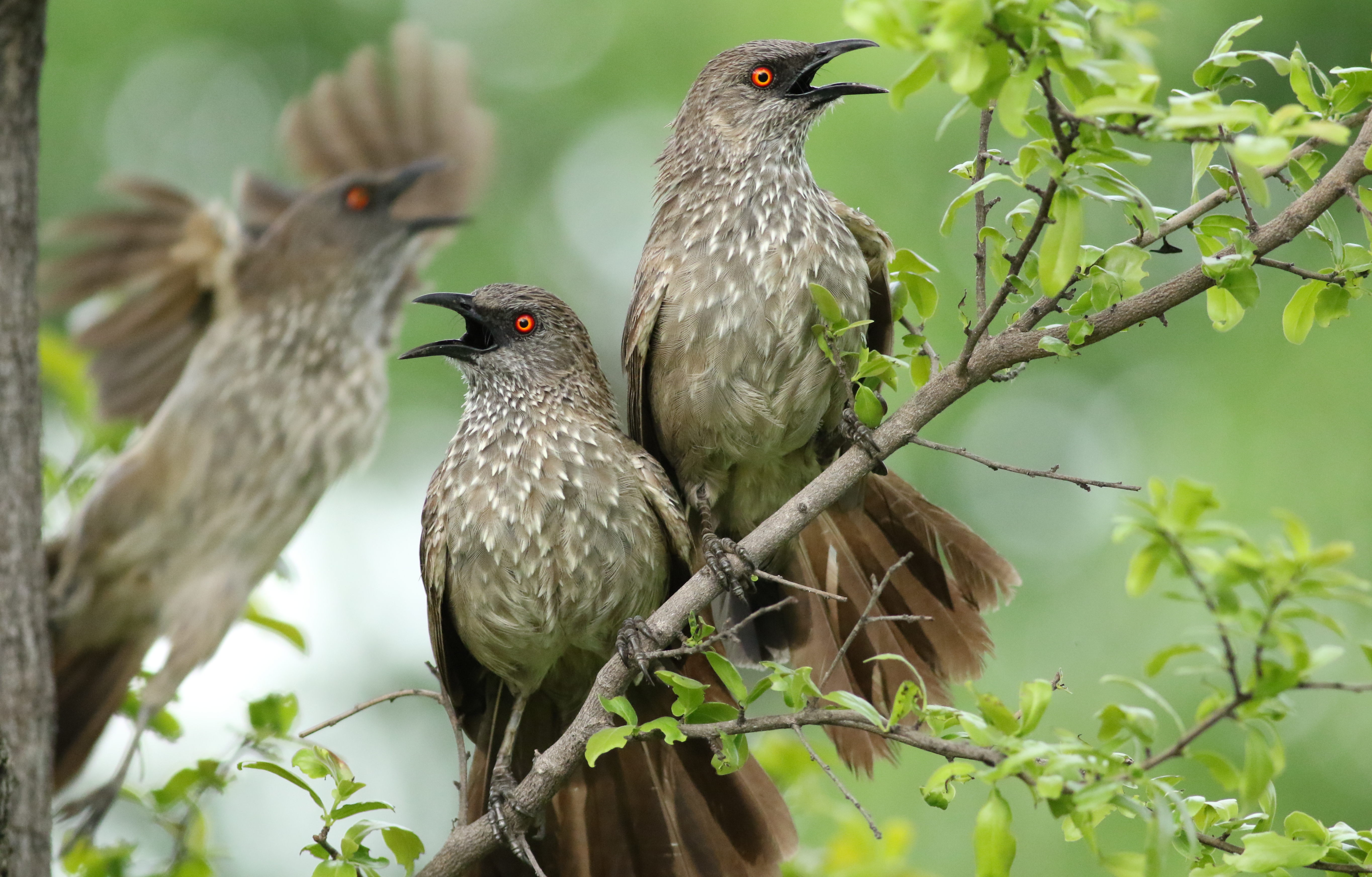 Arrow-marked Babbler,Turdoides jardineii, at Hwange National Park, Zimbabwe